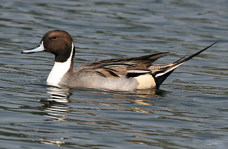 Northern Pintail (Anas acuta) in Kolkata, West Bengal, India.